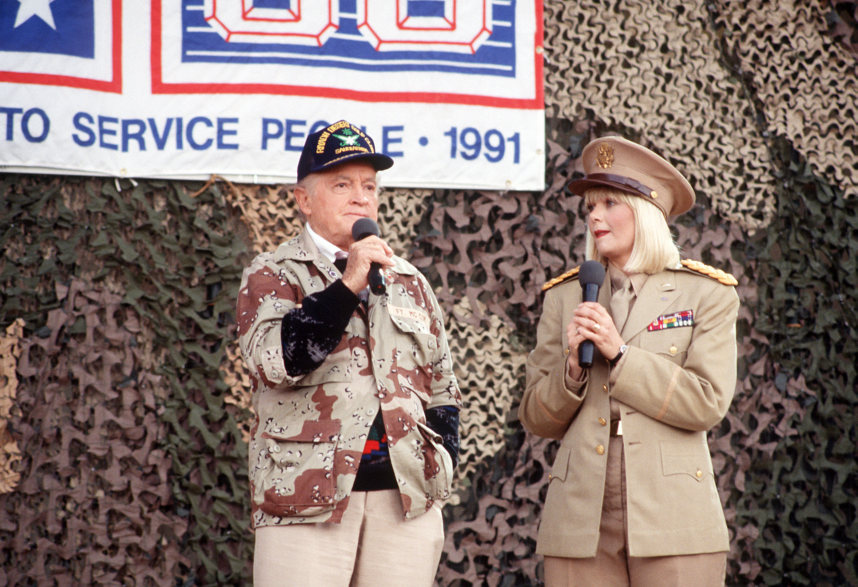 Entertainers Bob Hope and Ann Jillian perform for military personnel at the USO Christmas Tour during Operation Desert Shield.